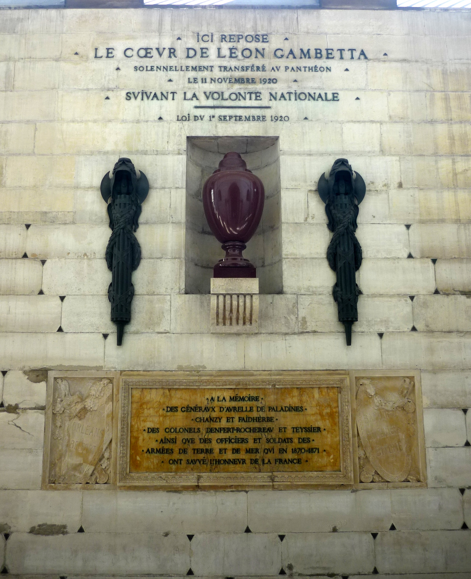 Léon Gambetta's funeral urn, Panthéon, Paris, France